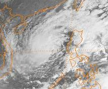 Severe Tropical Storm Warren (Toyang), October 23 – November 2, 1984